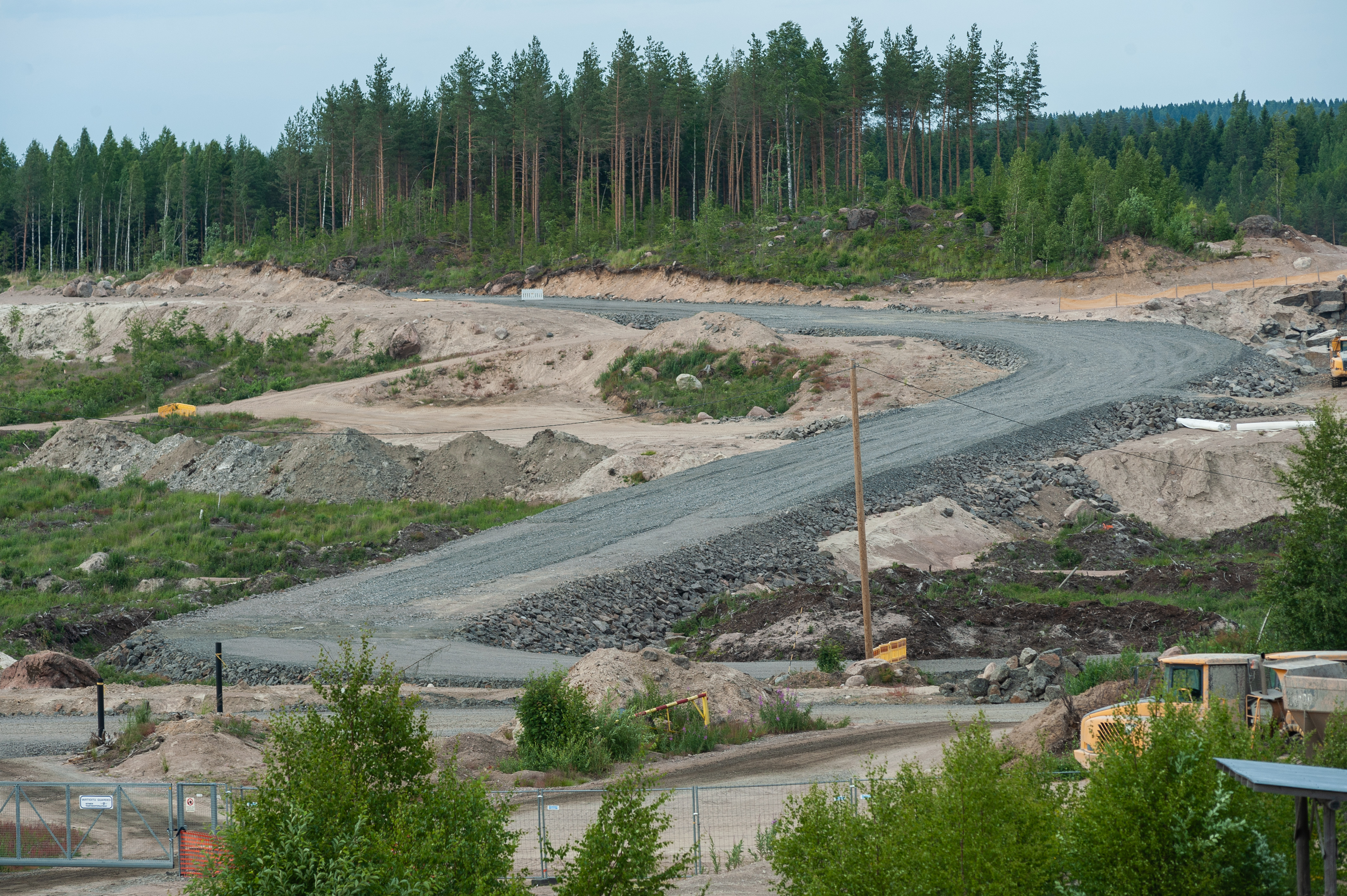 The KymiRing motor racing circuit under construction in Iitti, Finland.